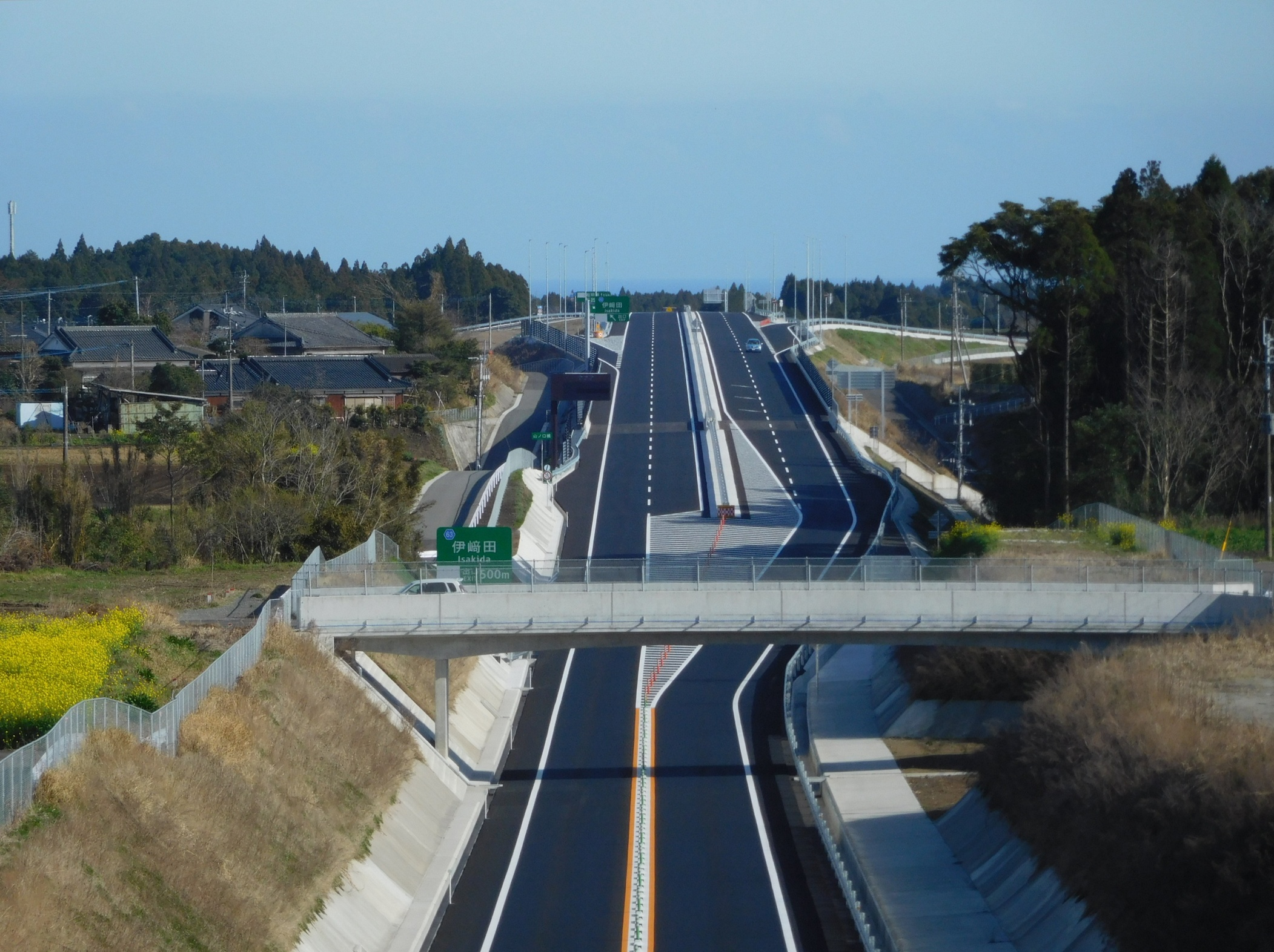 Miyakonojo - Shibushi Road (Isakida, Ariake-cho, Shibushi City, Kagoshima Prefecture, Japan)